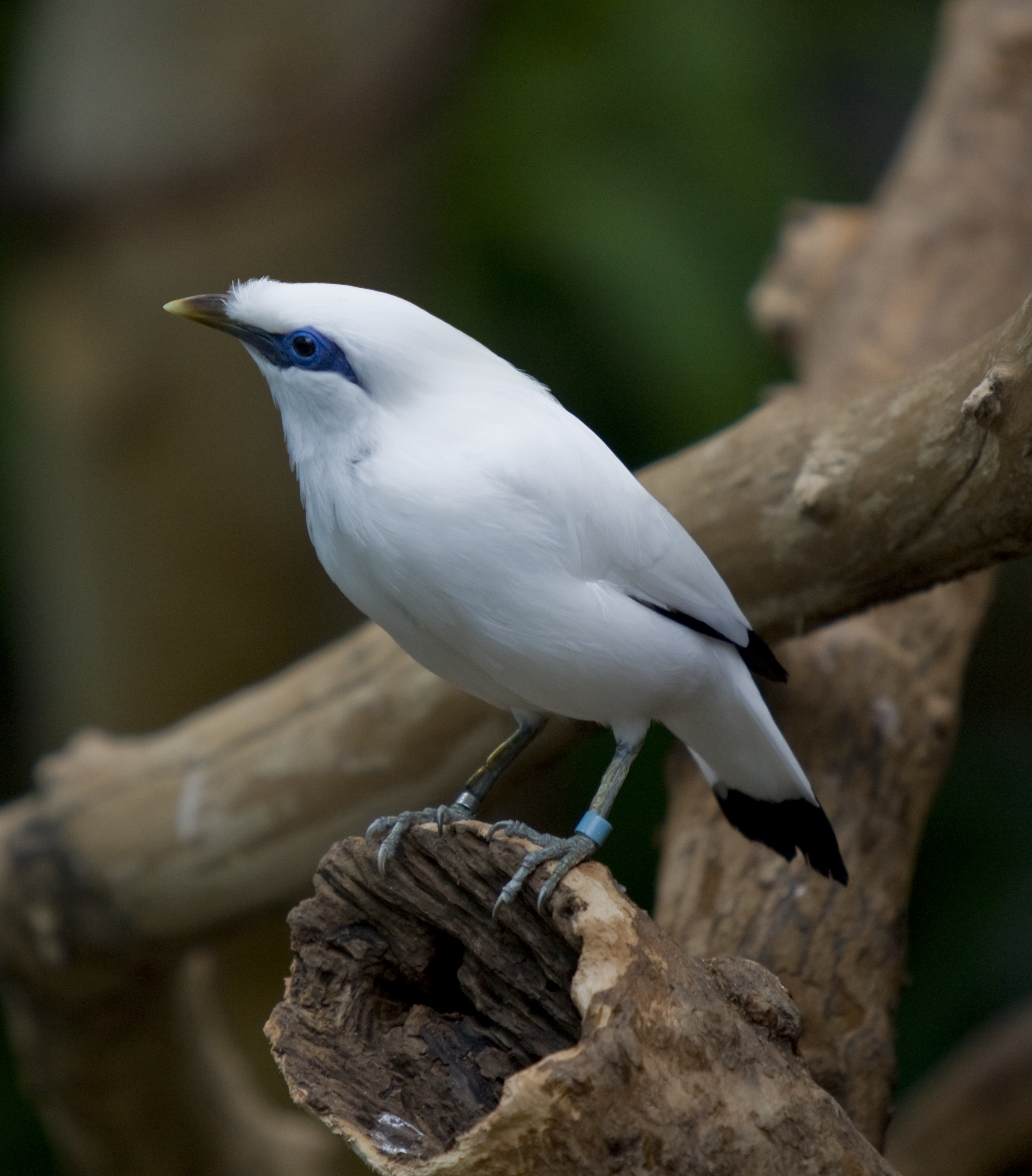 A Bali Starling at Brookfield Zoo, Chicago, USA.